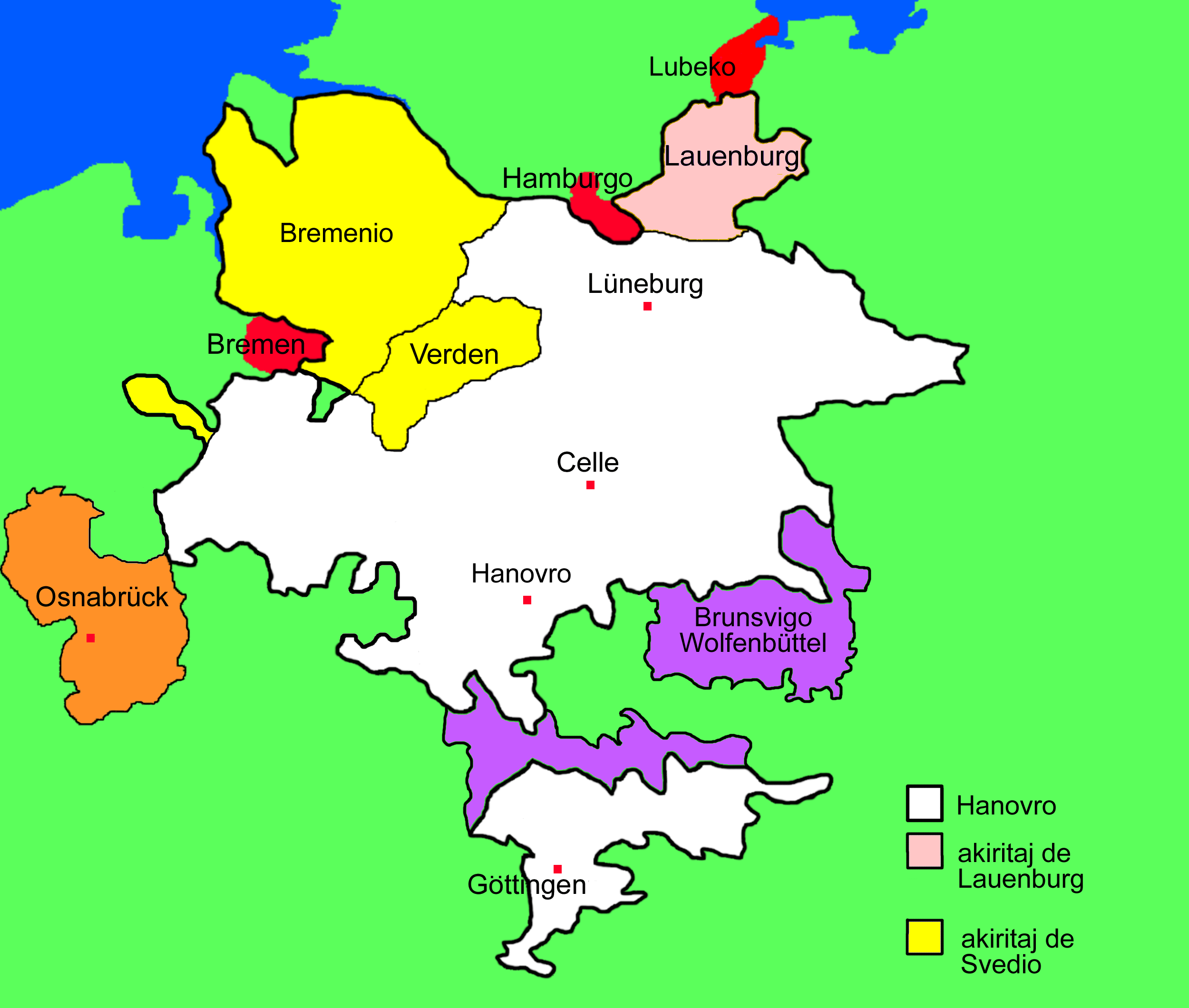 Sketch map of the state of Hanover in 1720, showing territorial acquisitions and some neighbouring states and imperial cities - labelled in Esperanto